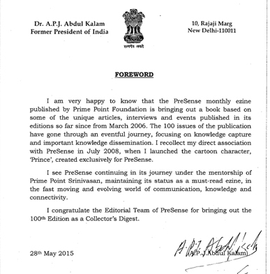 Foreword by Dr APJ Abdul Kalam